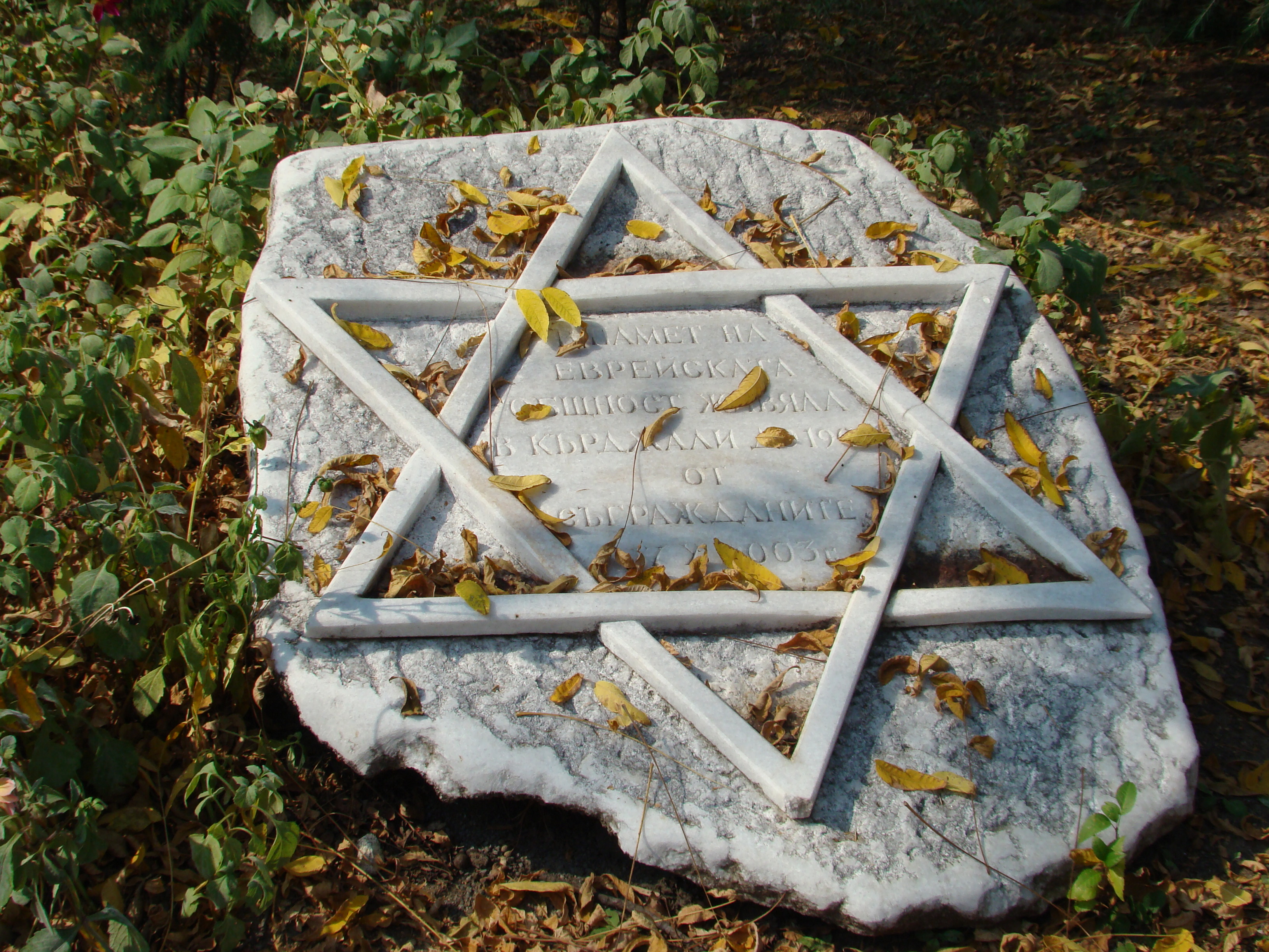 Memorial to the Jewish community in Kurdjali, Bulgaria